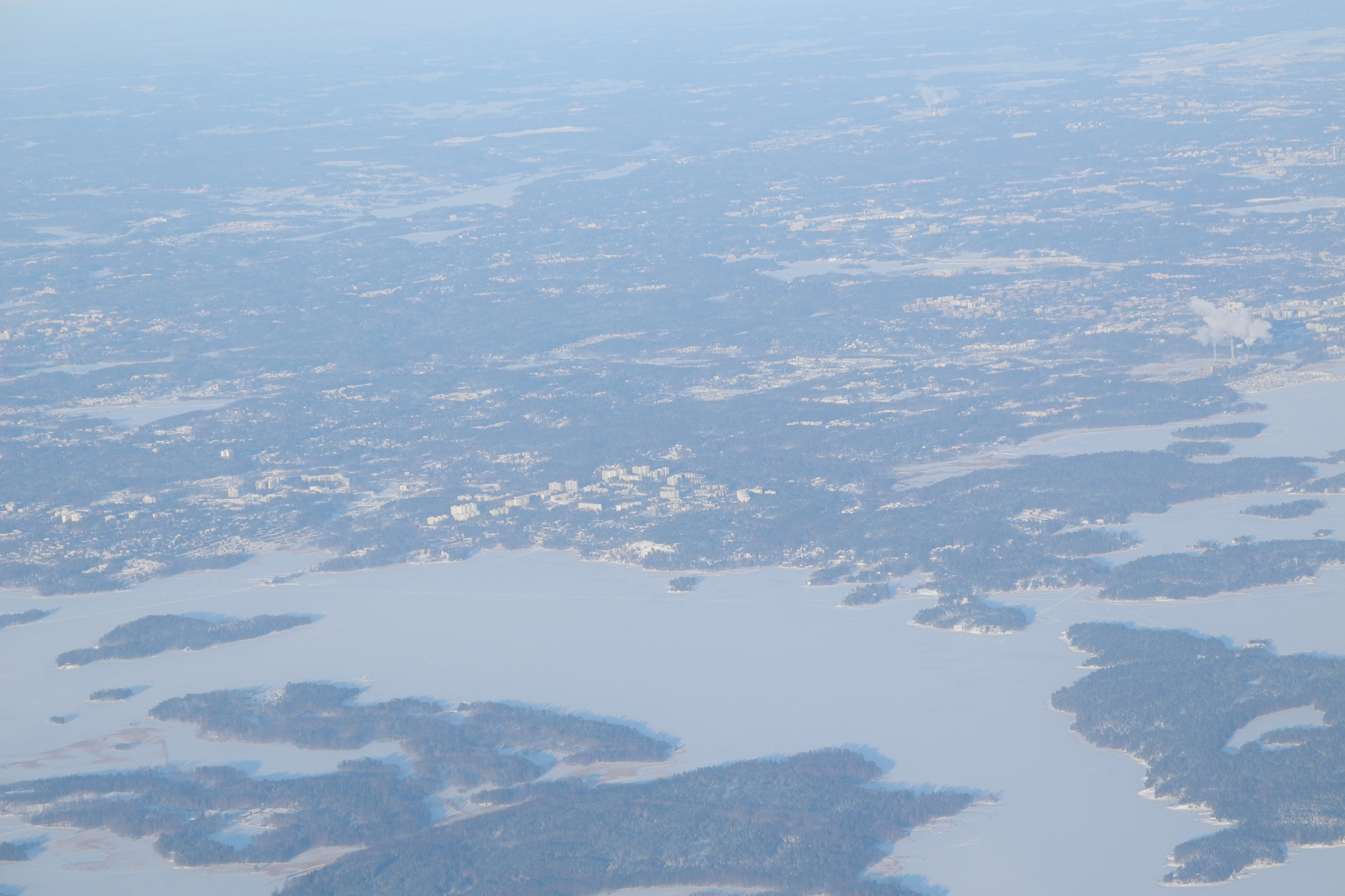 Soukka in Espoo, Finland from air